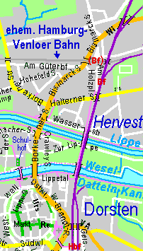 Partial map of Dorsten and its northern station "Hervest-Dorsten) with rails in two levels. The lower level (western section of Hamburg-Venlo railway) has been closed down.